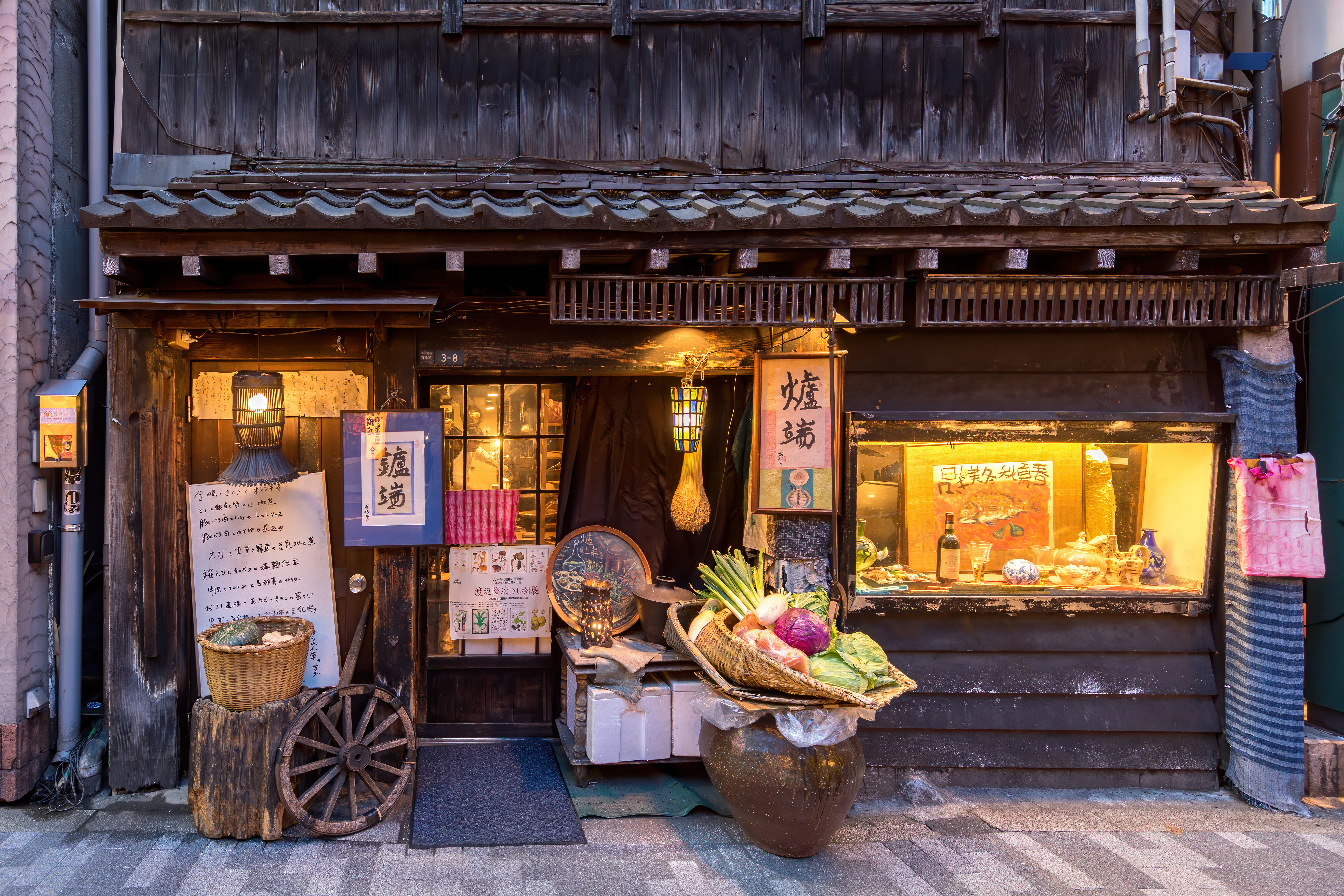 Illuminated facade of a restaurant serving traditional food and showing baskets of fresh vegetables at the entrance, Yūrakuchō, Chiyoda, Tokyo, Japan.